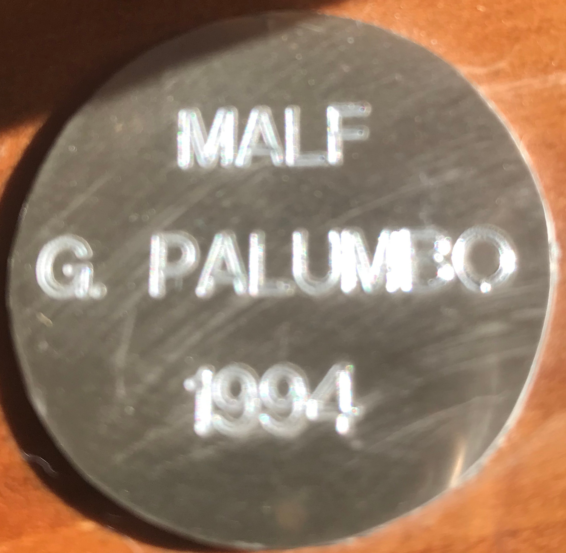 Patch on the Trophy